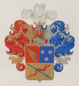 Andreevskiy coat of arms OG 11-113